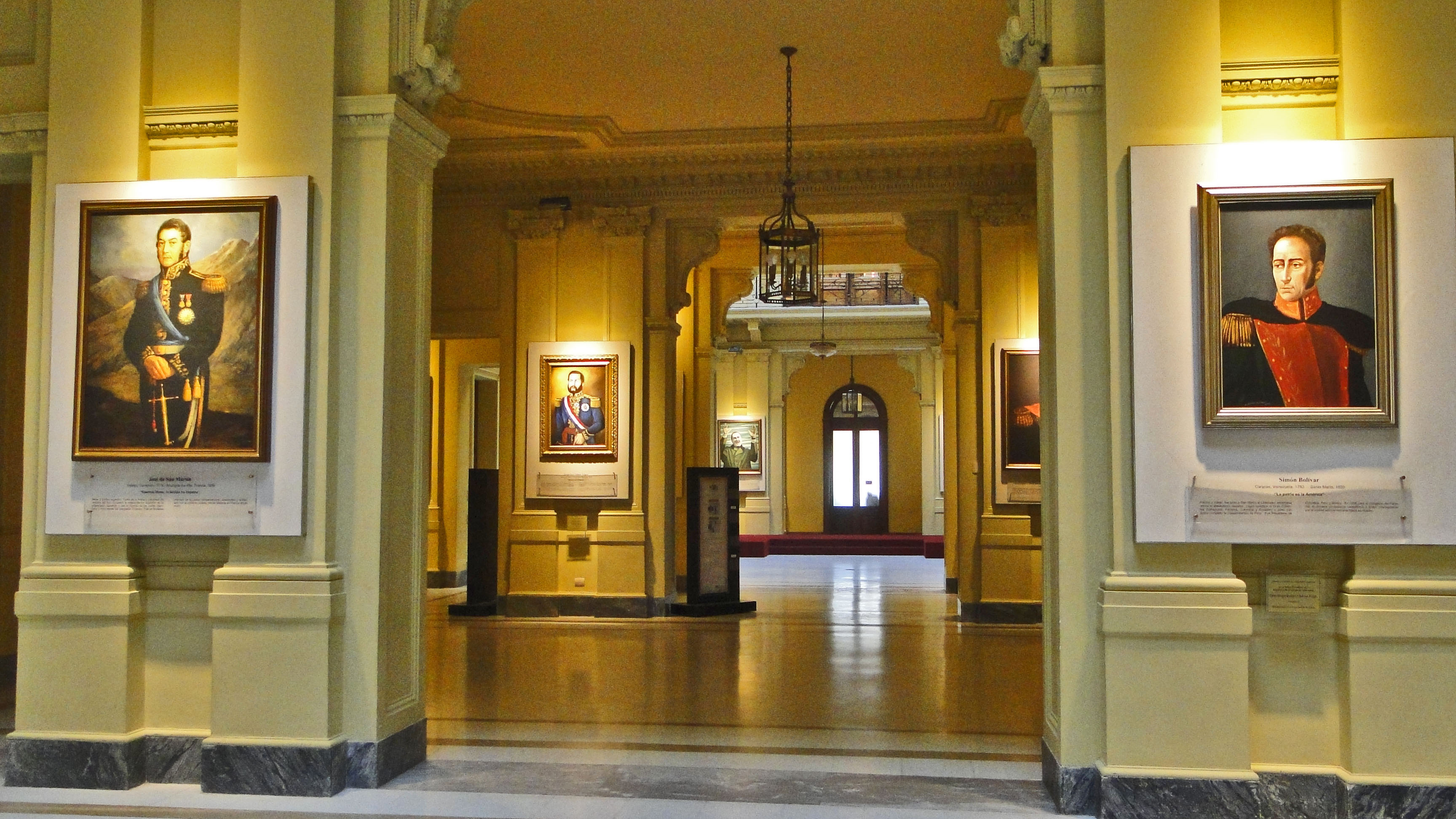 The Bicentennial Gallery of Latin American Patriots in the presidential residence, the Pink House, was opened on 25 May 2010 as part of events marking the 200th anniversary of the founding of Argentina.